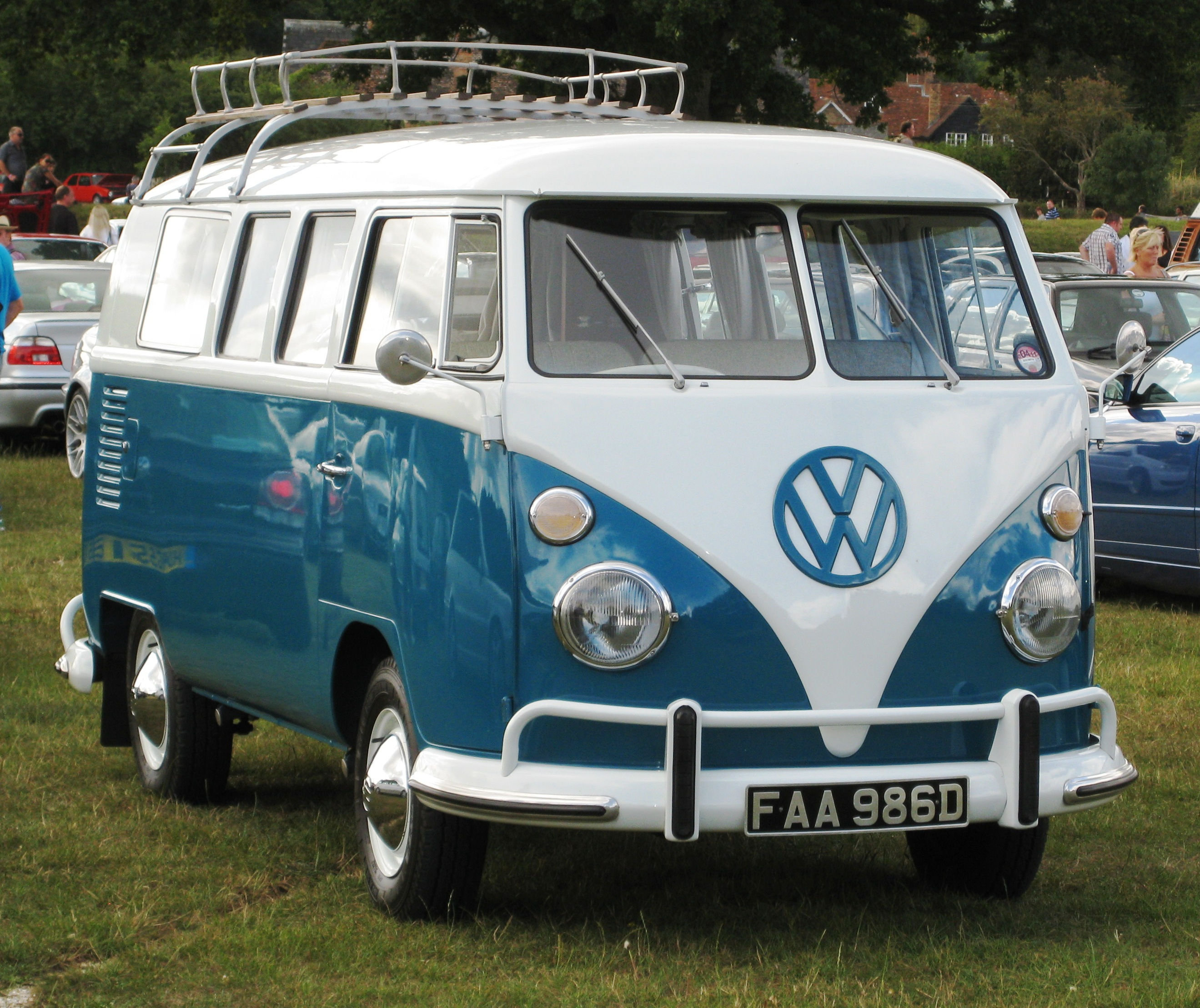 Volkswagen Type 2 late split screen version at Beaulieu German Autofest